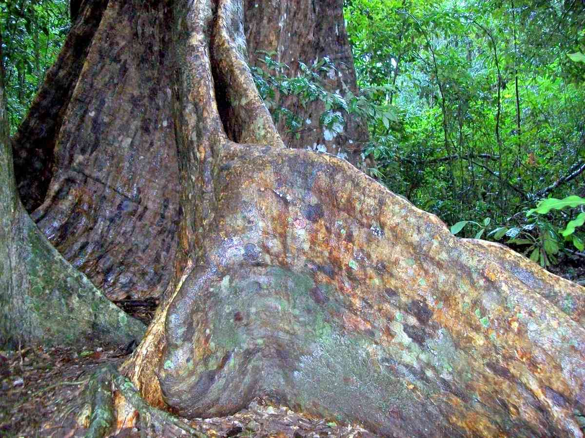 Syzygium francisii (large) & possibly a White Booyong (small) at Booyong Flora Reserve, NSW, Australia. (Photographed during and after rain)